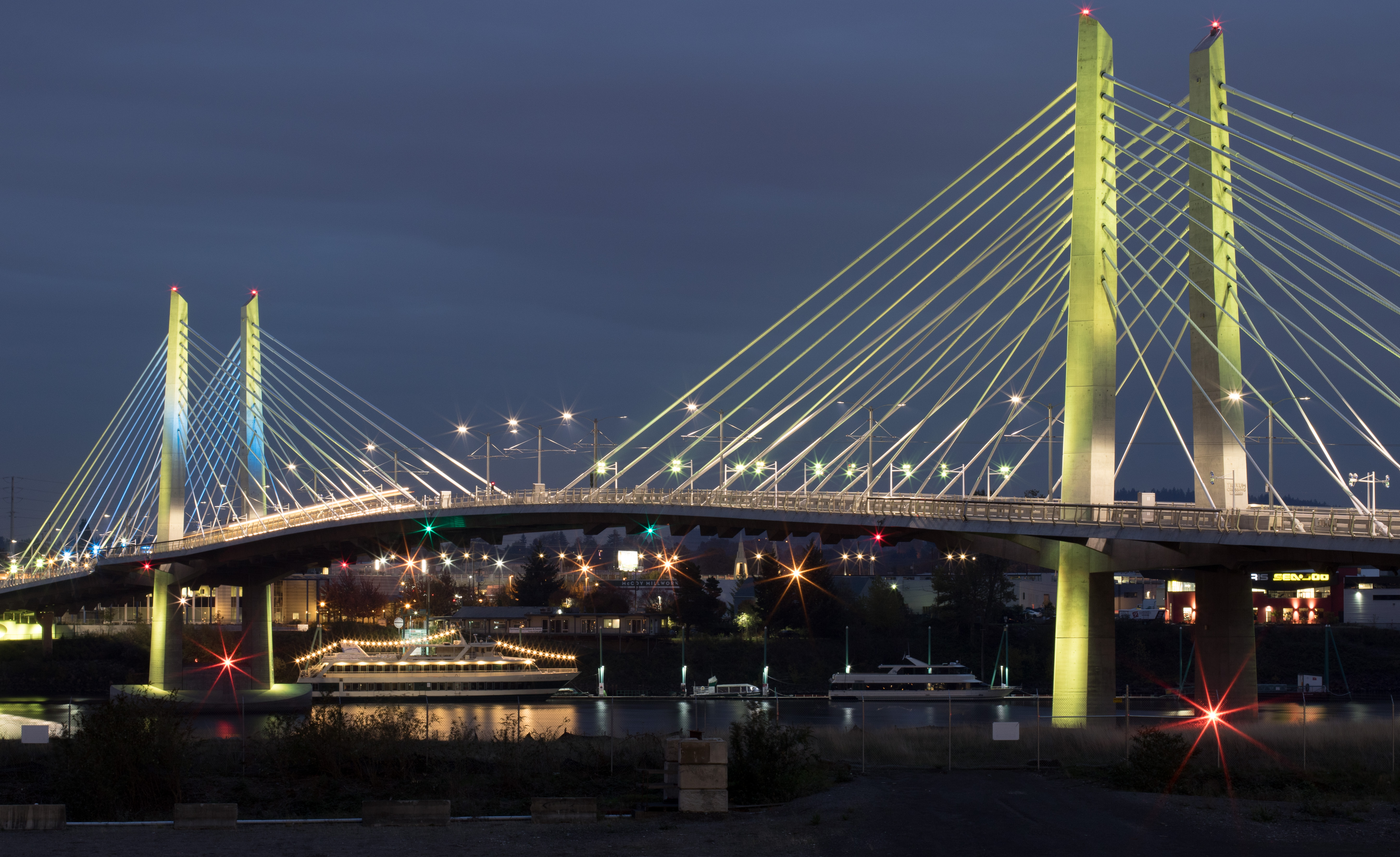 A night-time photograph of the Tilikum Crossing in Portland, Oregon.